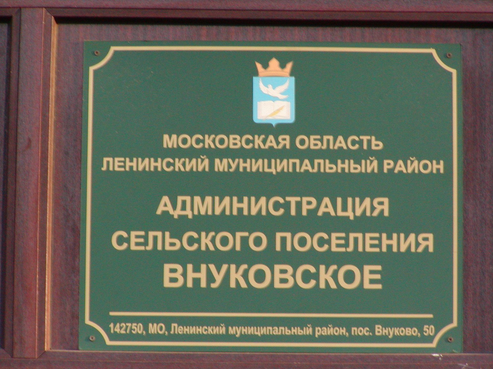 The official signboard of of Vnukovsckoe rural settlement's administration.